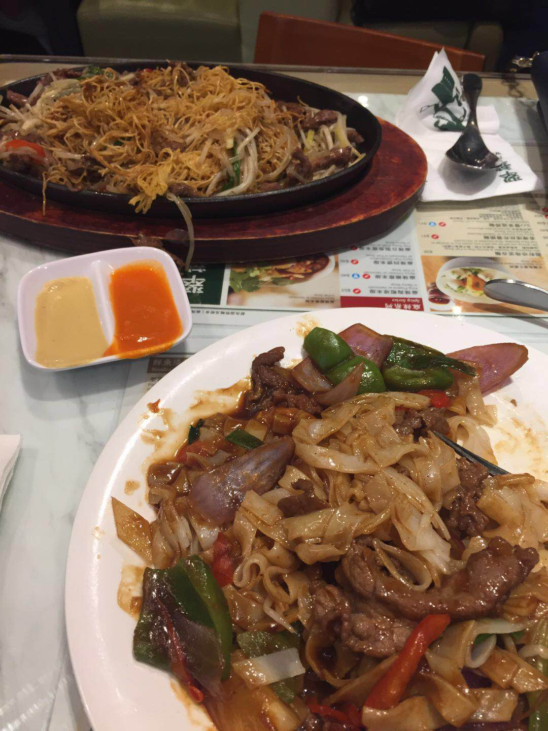 Ganchaoniuhe